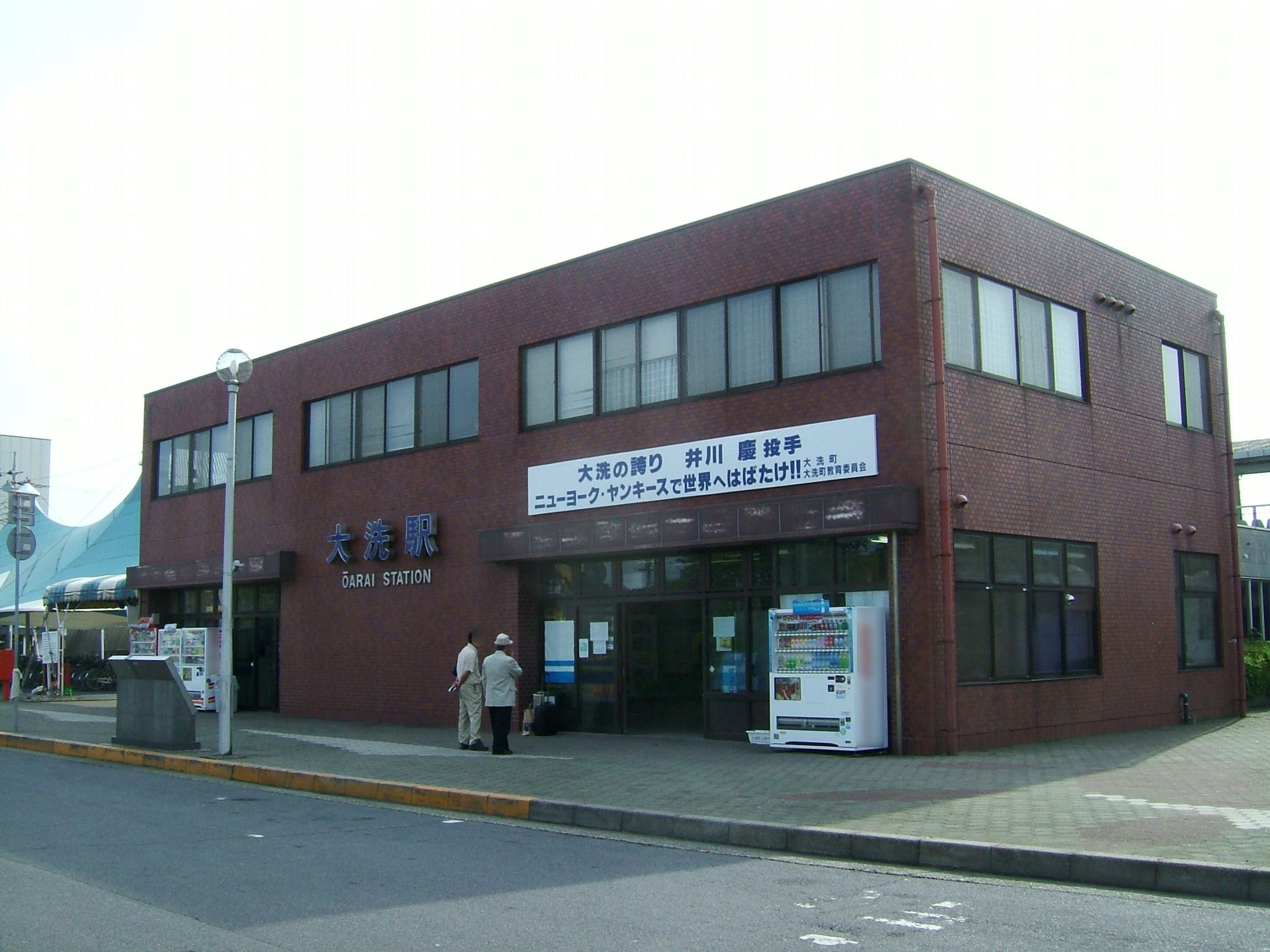 Oarai Station (Kashima Seaside Railway Oarai Kashima Line)